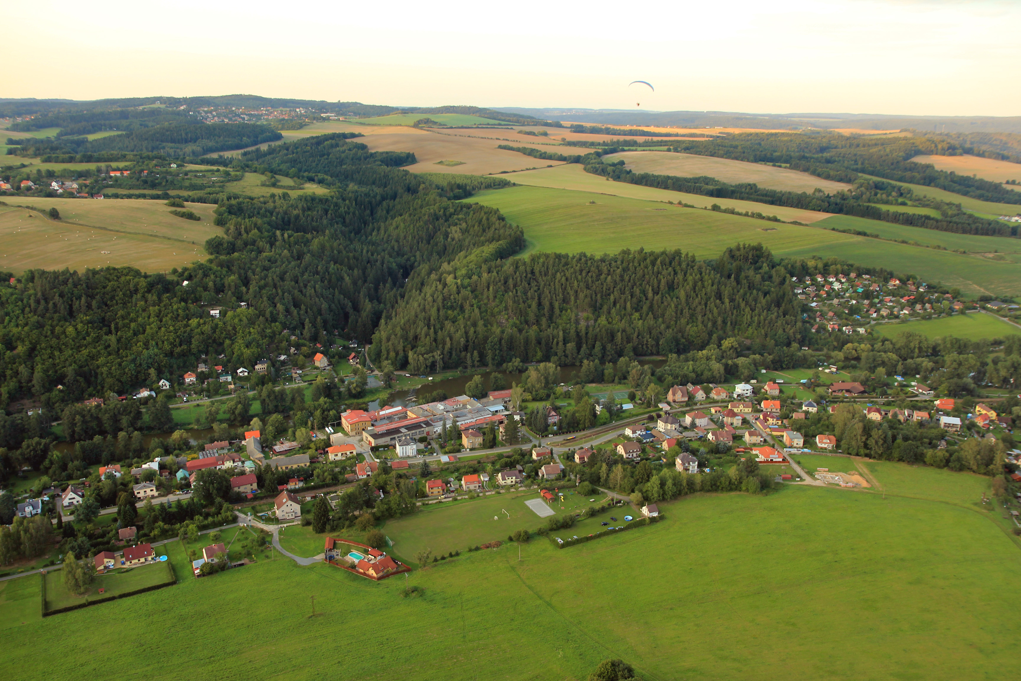 East part of Hvězdonice, Czech Republic